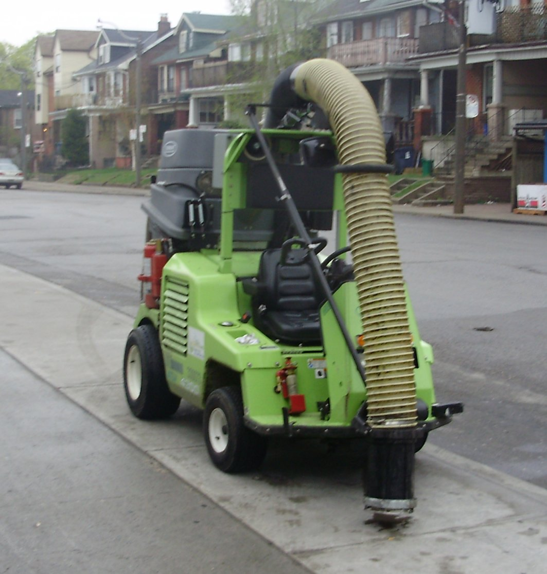 A Toronto Works and Emergency Services street sweeper, parked at Pape Station in Toronto.